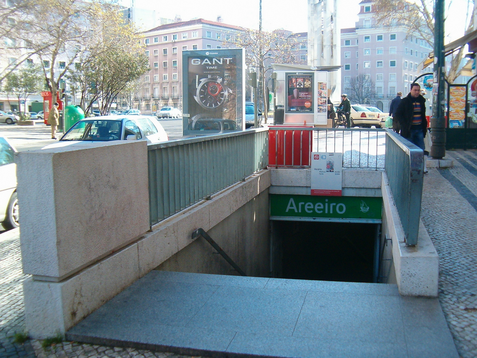 Metro station Areeiro (Lisboa)